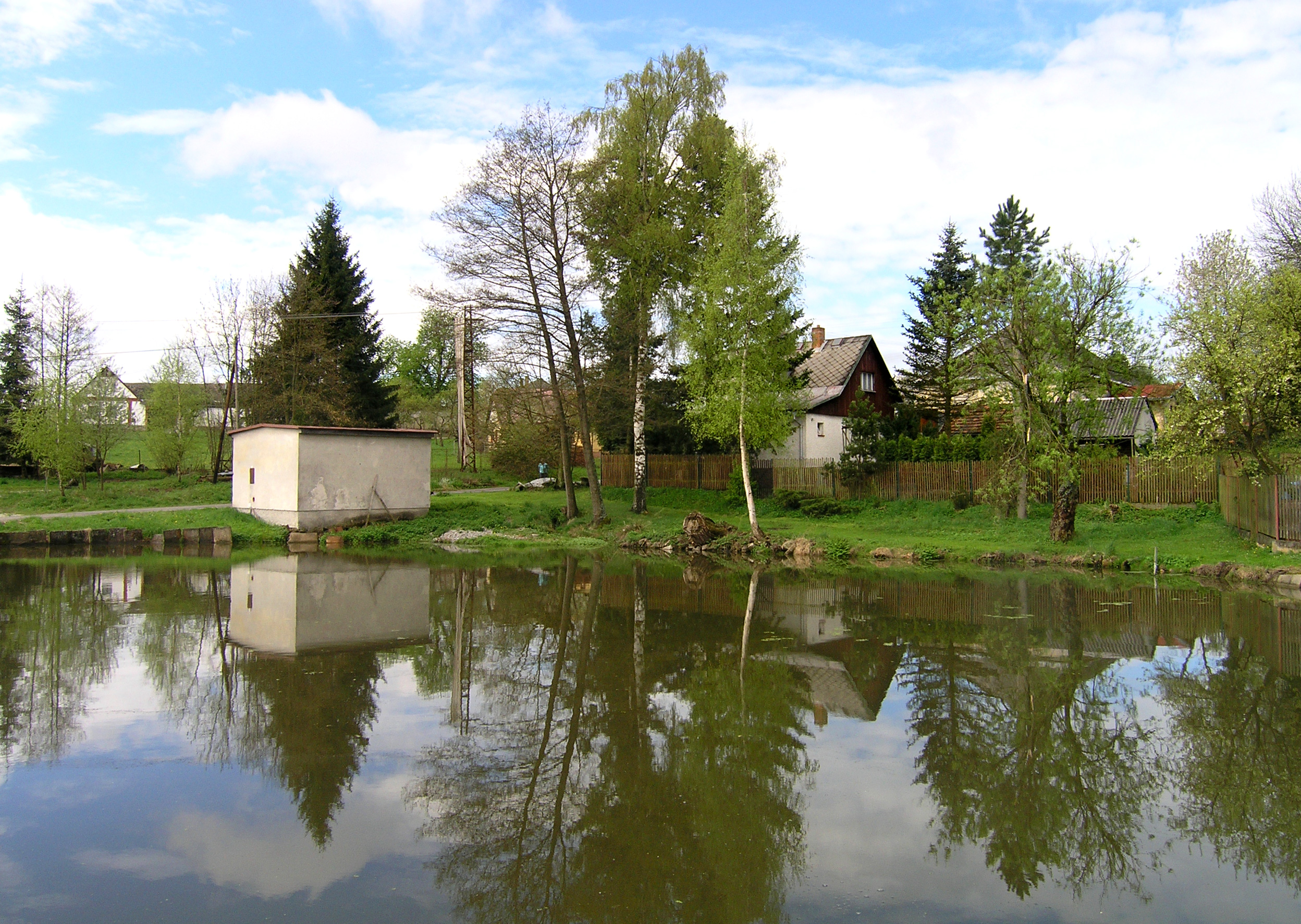 Common pond in Benešov, part of Černovice village, Czech Republic